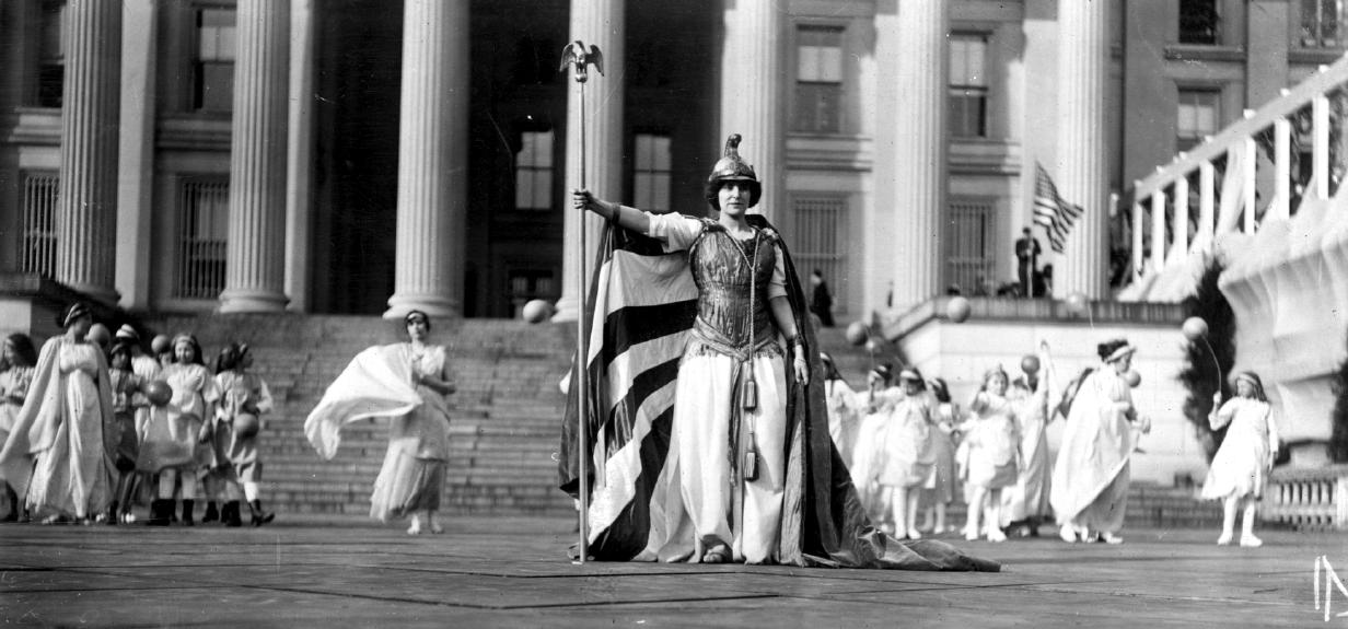 German actress Hedwiga Reicher wearing costume of "Columbia" with other suffrage pageant participants standing in background in front of the Treasury Building, March 3, 1913, Washington, D.C. The pageant featured an allegory in which Columbia summoned Justice, Charity, Liberty, Peace, and Hope to review the new crusade of women.